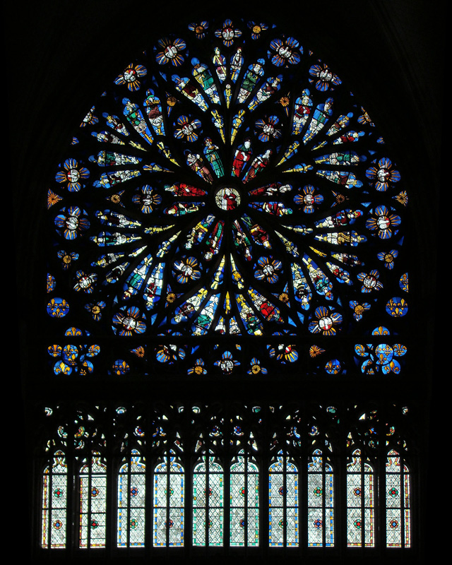 Church of Saint Ouen, Rouen, Seine-Maritime, Normandie, France. South transept rose: Tree of Jesse by Alexandre de Berneval.